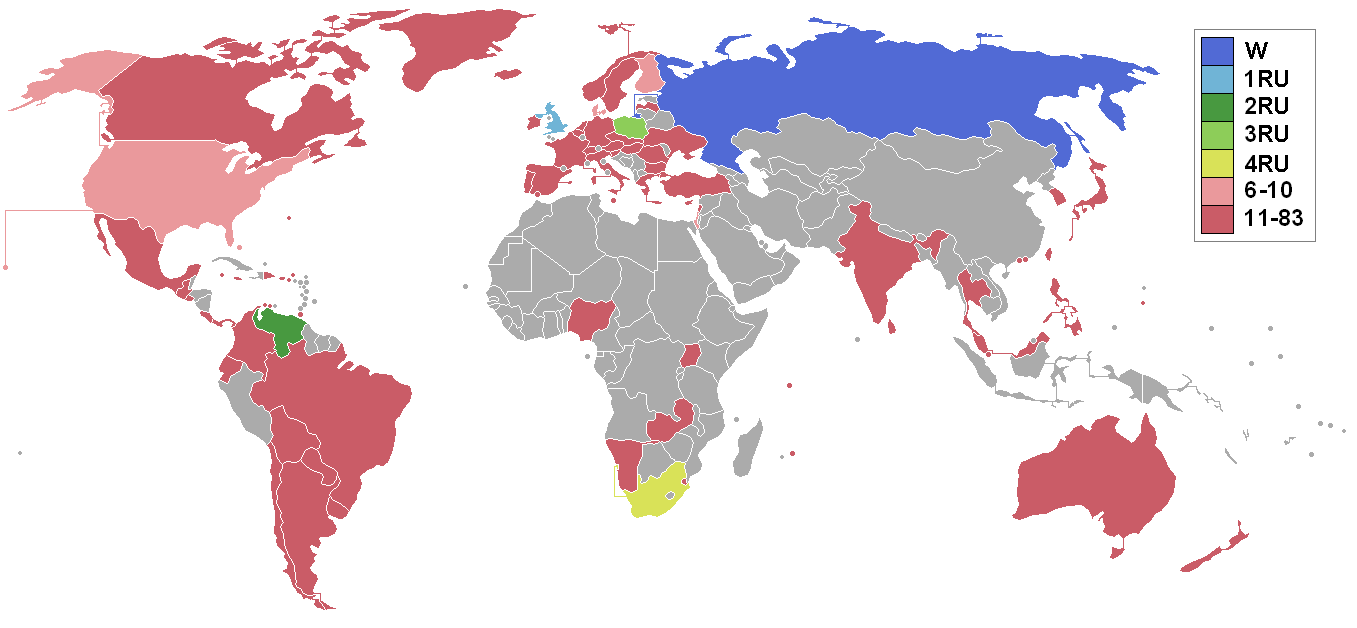 image by Joey80